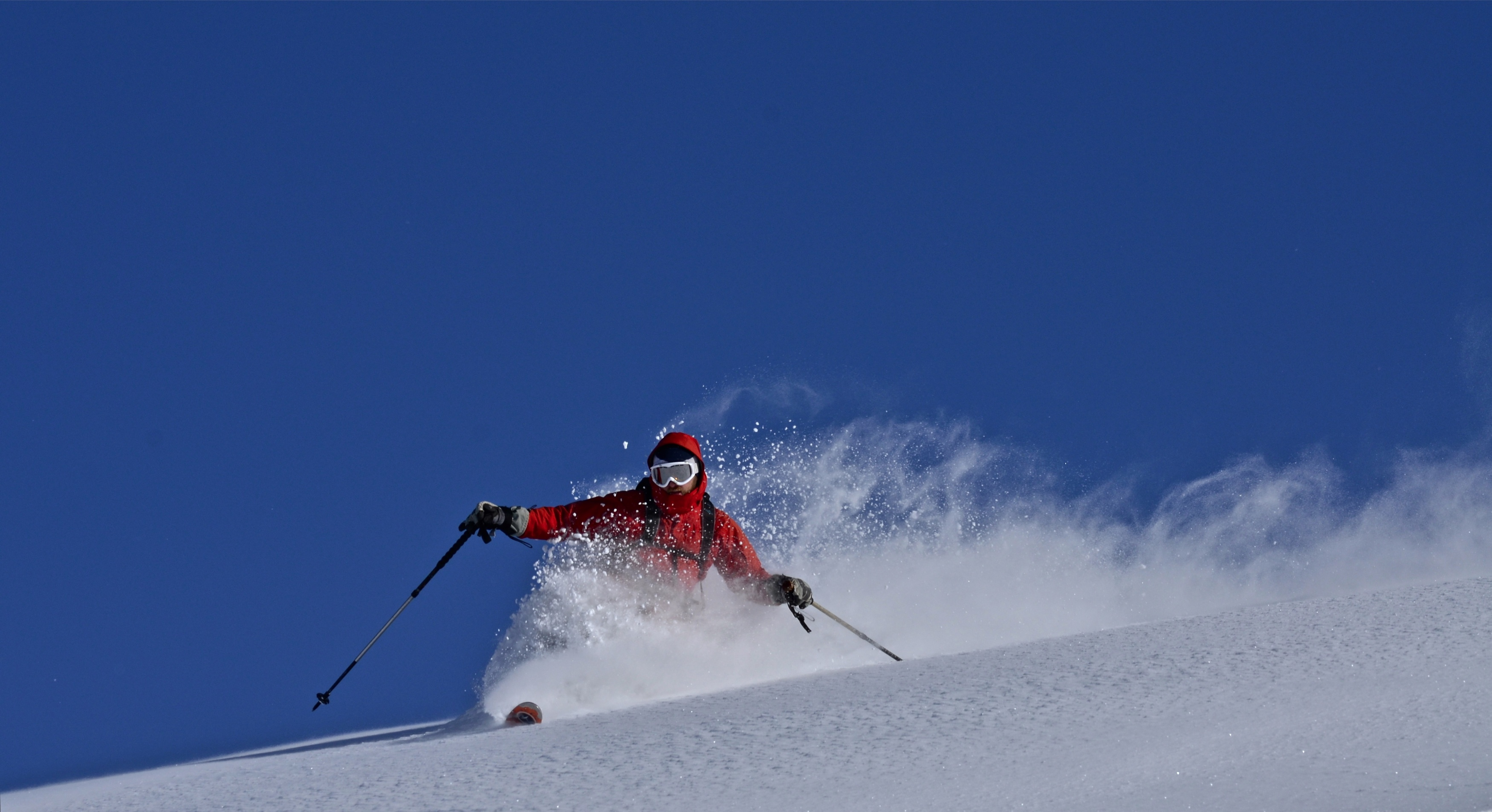 Telemark skiing - Pyrenees